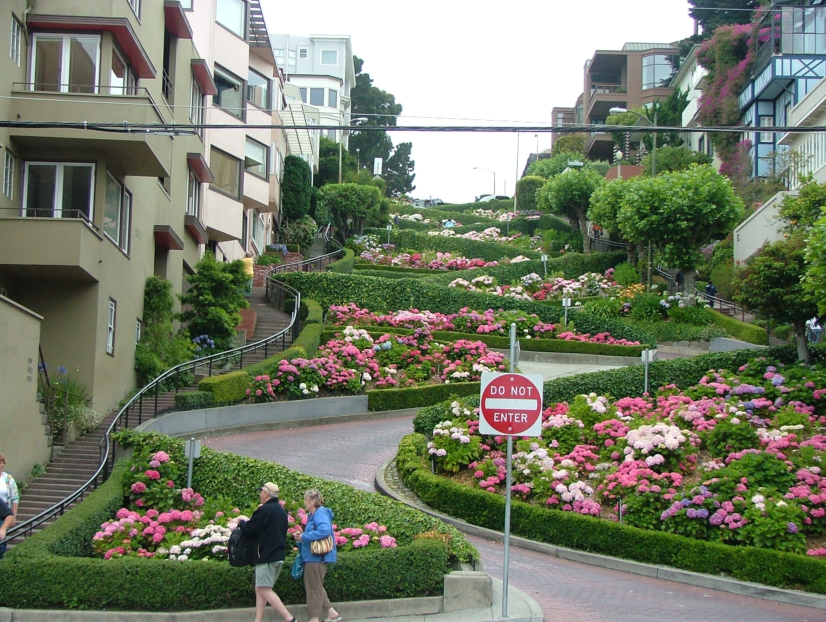 Lombbard Street, San Francisco, Crooked part, close up